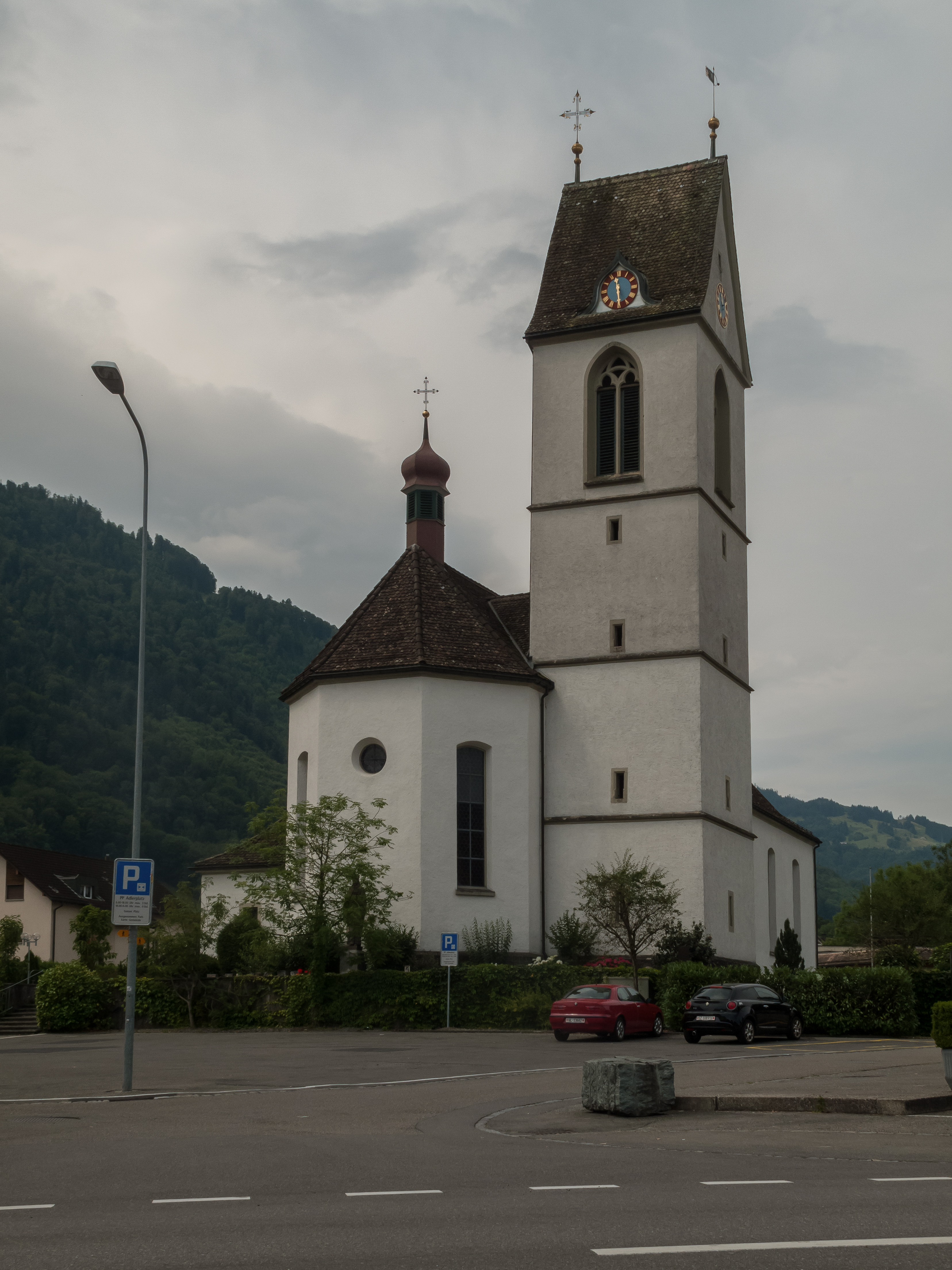 Schübelbach, church: Sankt Konrad Kirche